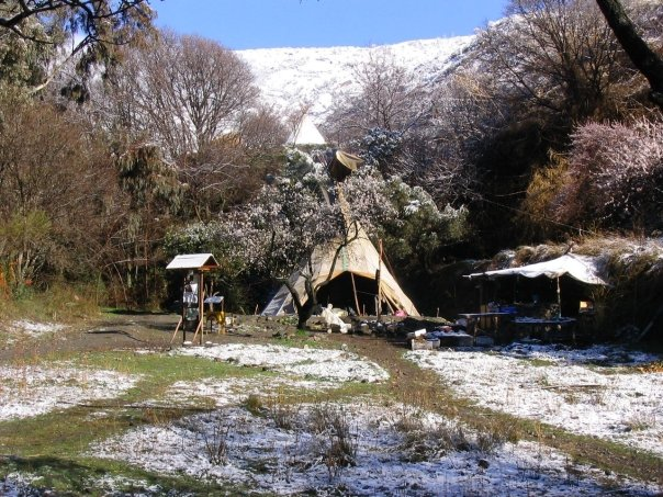 The Beneficio community tent with snow.